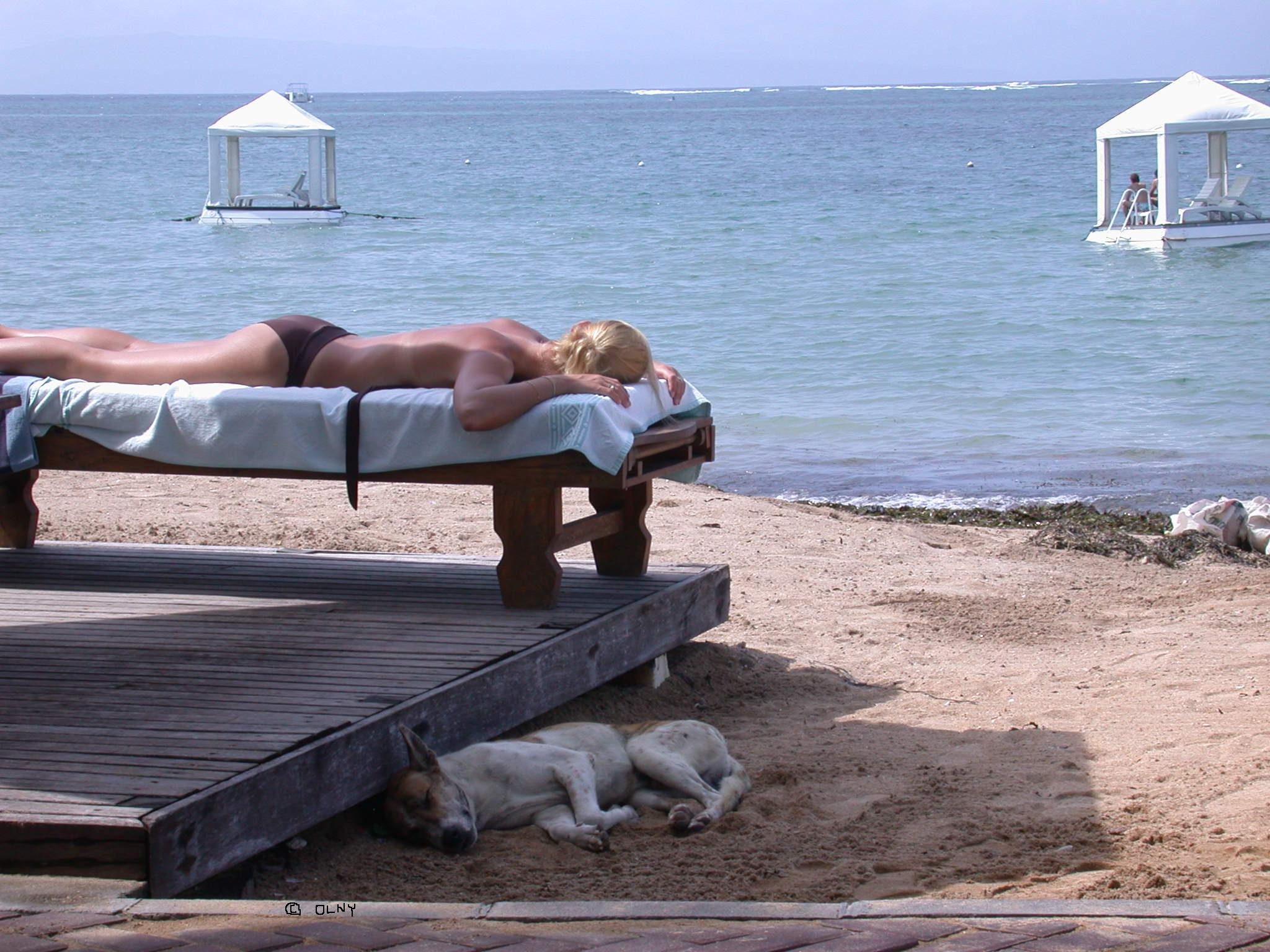 Sunbathing woman and sleeping dog on Sanur Beach / Bali / Indonesia. Alternate title: "His master's voice"